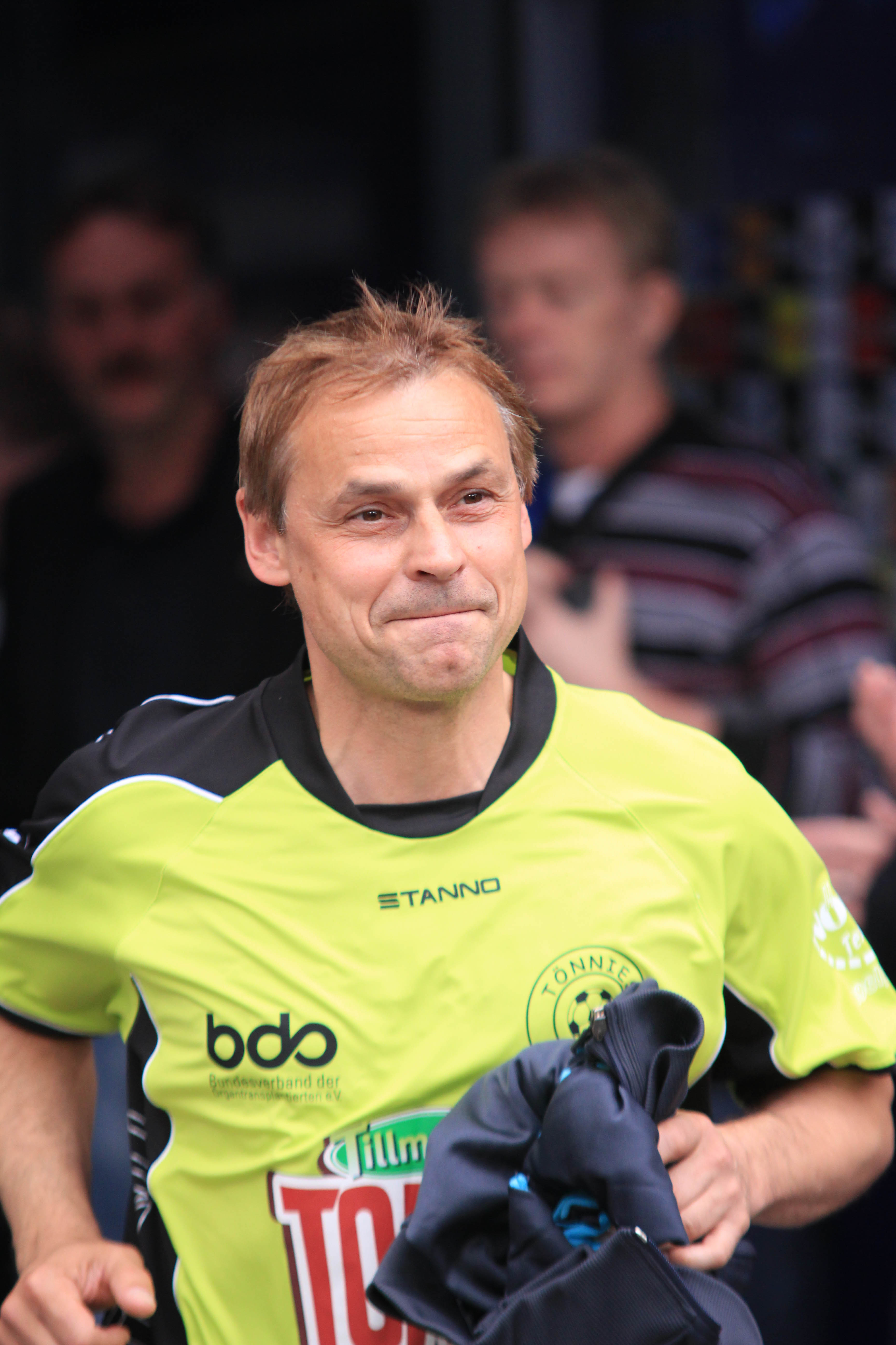 Former German footballer Olaf Thon at the benefit match "Tönnies and Friends versus MSV-Traditionself", May 2012